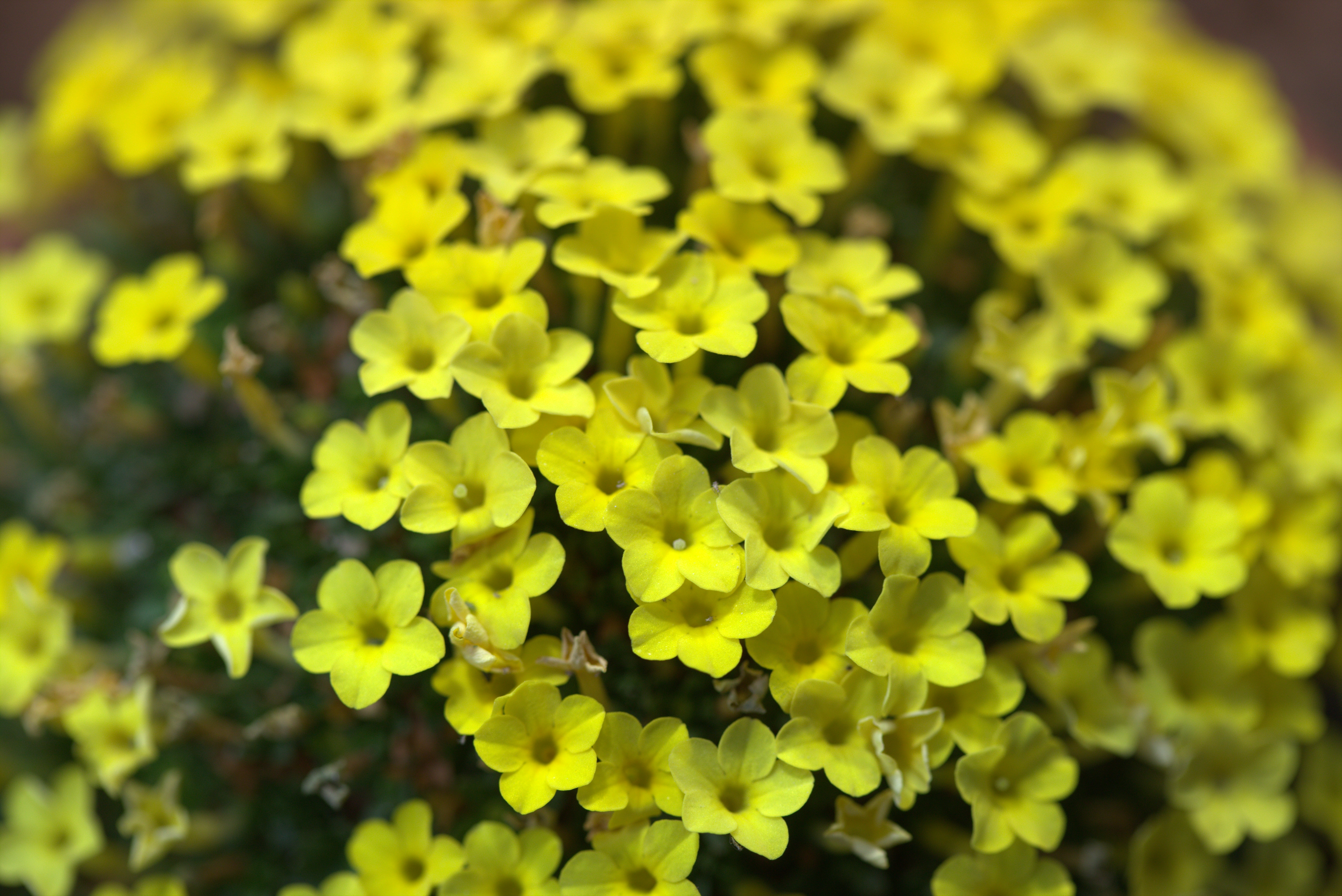 Dionysia iranica at Gothenburg Botanical Garden in 2015. Plant id: 2002-2036; T42 118-1